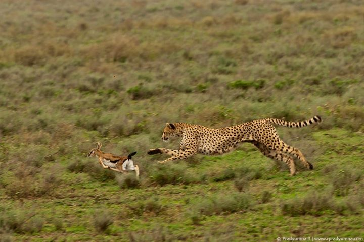 Cheetah hunting fawn